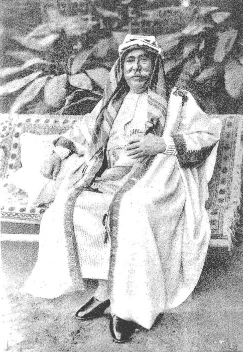 Ahmad Zaki Pasha (1867–1934) in traditional Arab clothes. The photograph was published in Al-Hilāl magazine on 1 August 1934 following his death.